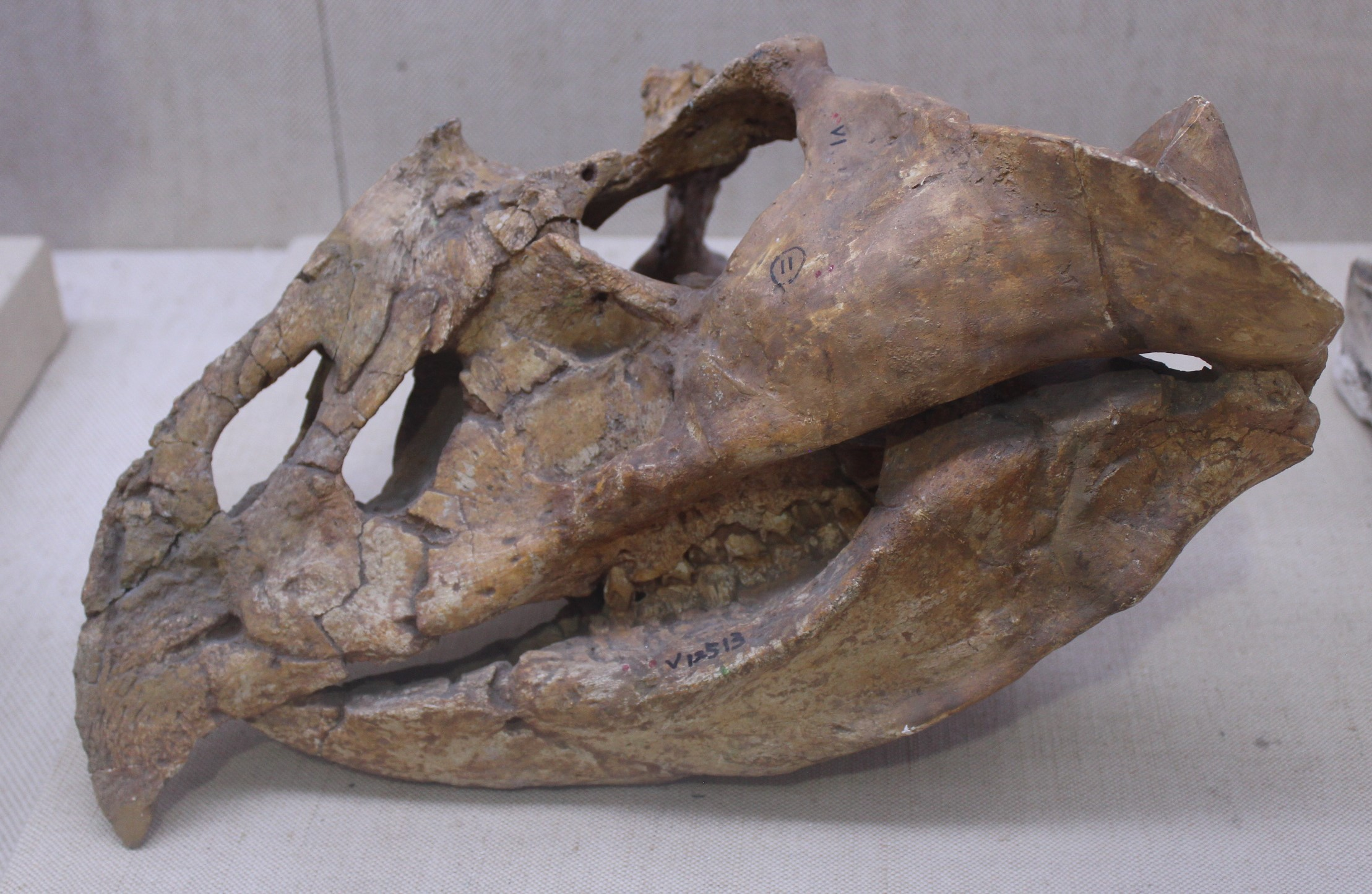 Type skull of Magnirostris dodsoni on display at the Paleozoological Museum of China.